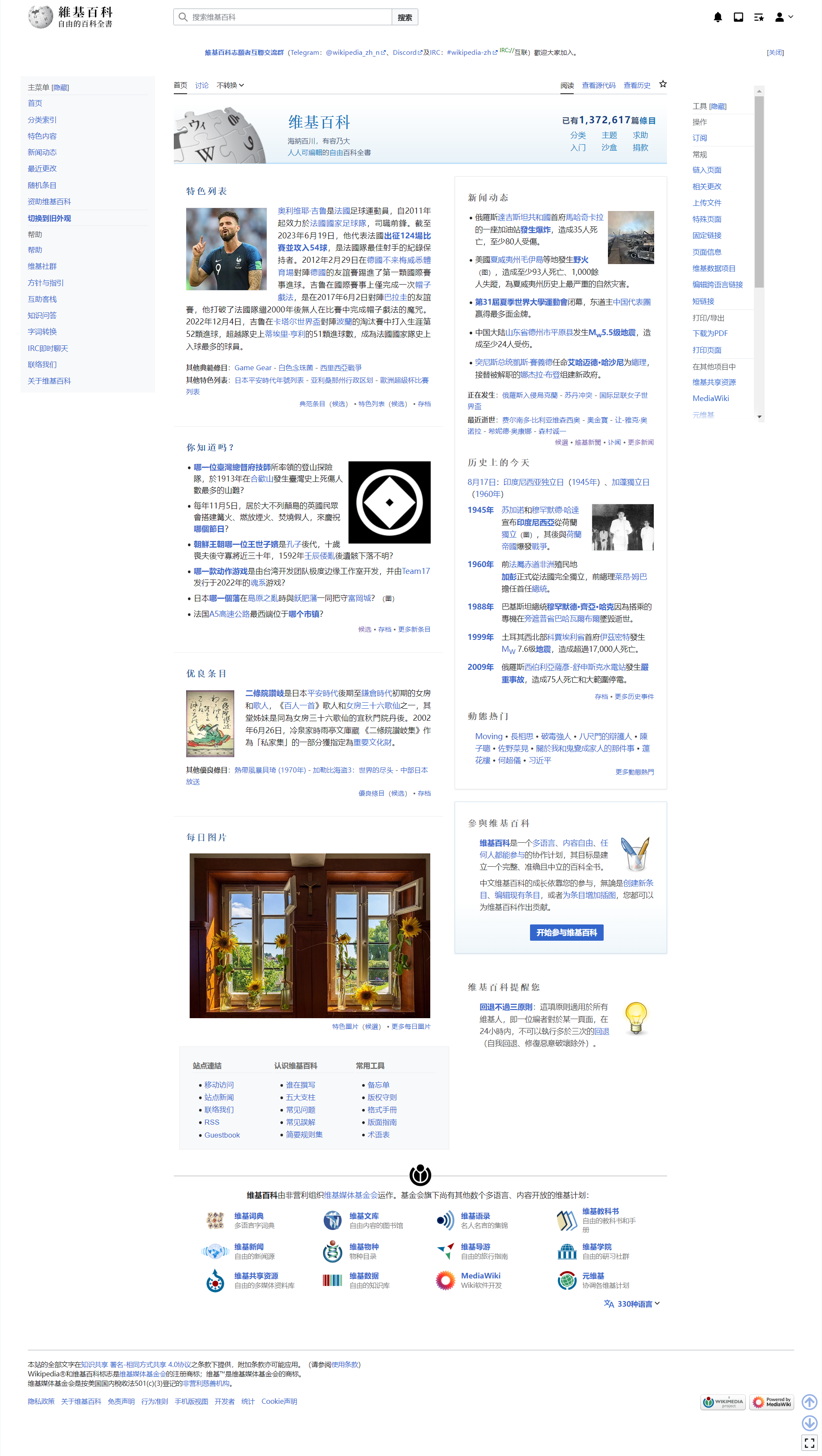 Screenshot of the Chinese Wikipedia's main page (default zh version)